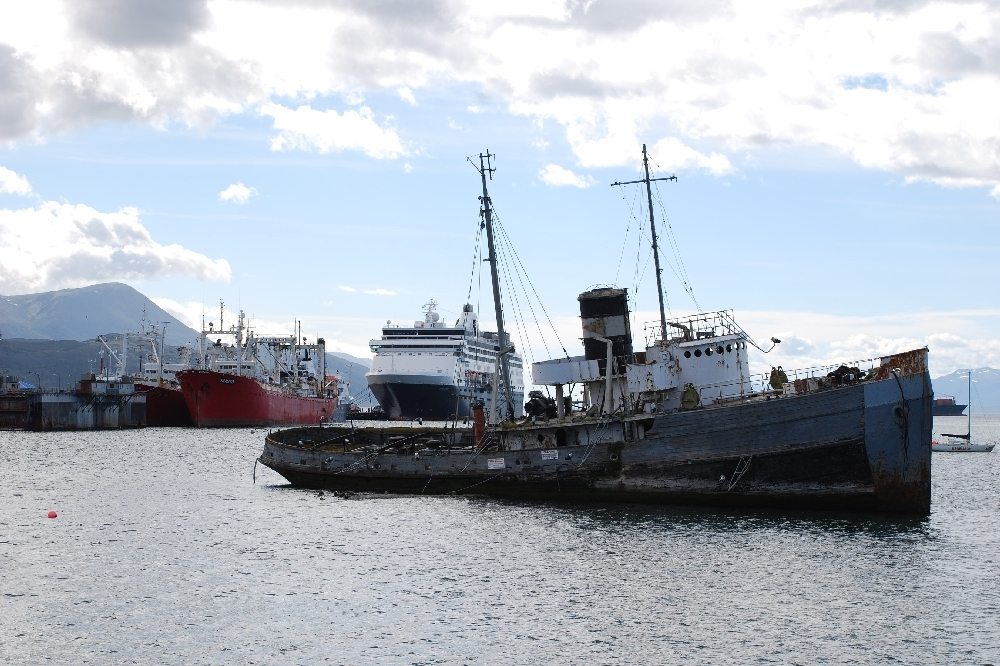 New ships and old, in Ushuaia harbor bay